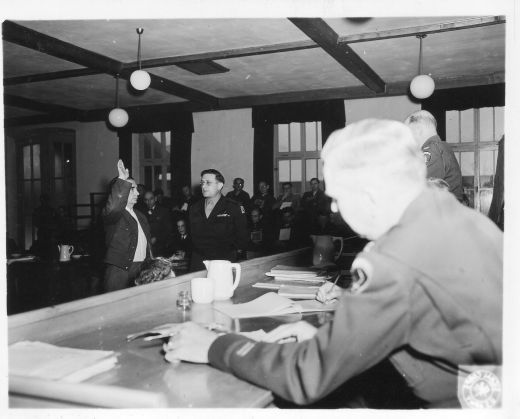 18 December 1947. L-R Defendant, George Rickhey, former General Director at the Mittelwerk factories, at Nordhausen, Germany. After the end of the war Rickhey was sent to Dayton, Ohio, USA as a V2 rocket bomb expert, was arrested there and brought back to Germany to stand trial, for crimes commited at Nordhausen. Standing next to him his Mr. Rudolf Nathanson of Long Island, N.Y. (No street-address) court interpreter. Col. Frank Silliman of Philadelphia, Pa., President of the court, is giving an Oath to George Rickhey, the accused, and Lt. Col. Roy J. Herte of Floral Park, N.Y., one of the seven judges on the trial.